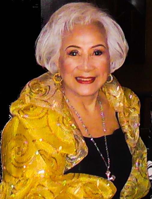 Mila del Sol, Gawad Parangal night, 2010